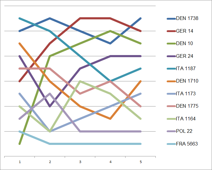 Europe Male Positions during the 2012 Vintage